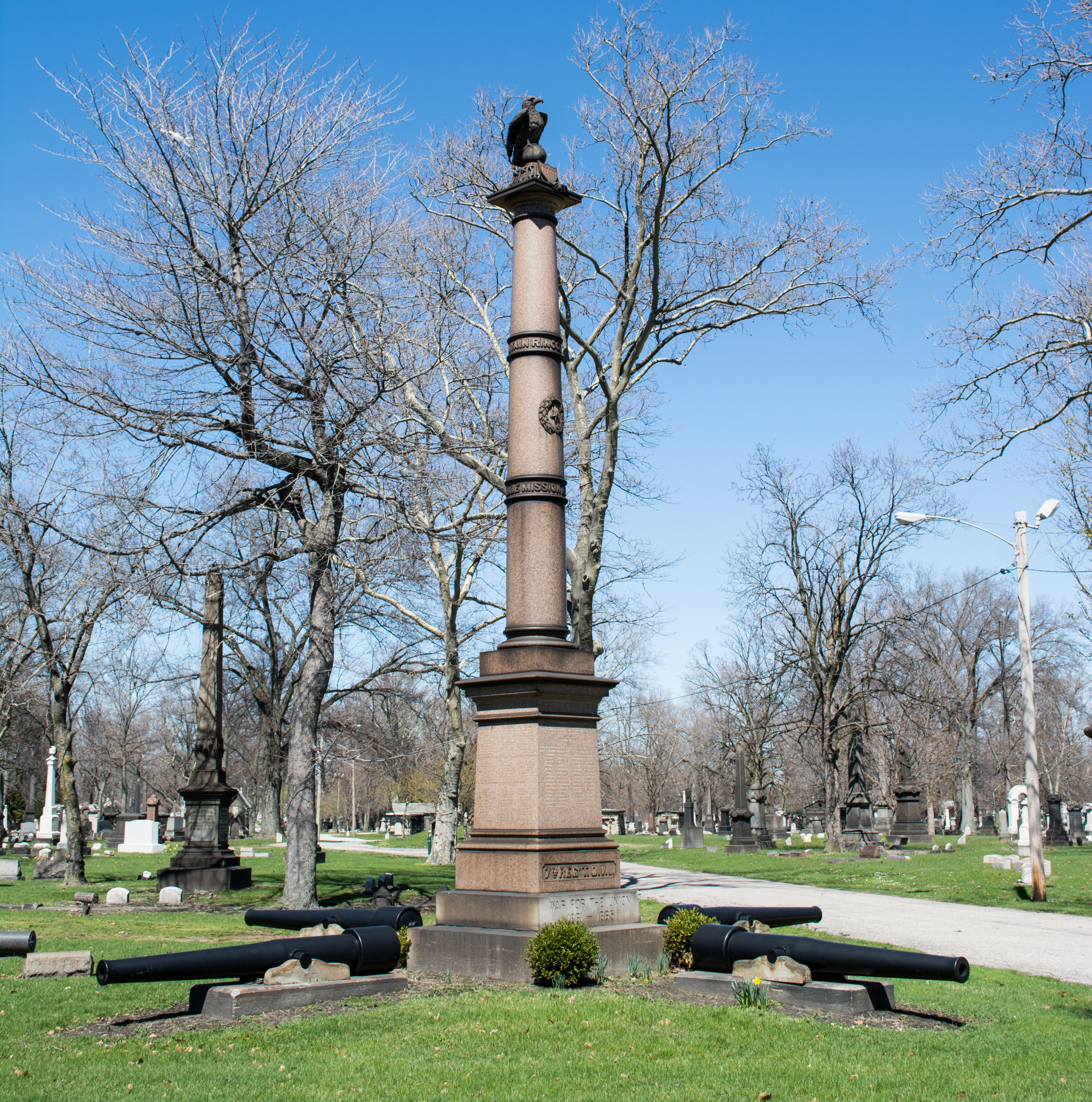 The 7th Ohio Volunteer Infantry Memorial in Woodland Cemetery in Cleveland, Ohio, in the United States. The memorial was erected in 1871 and dedicated on Memorial Day in May 1872. The memorial consists of two stepped square bases of concrete, a plinth of red granite, a short square column of red granite, and a tall cylindrical column of red granite in the Tuscan order. Atop the column is a small concrete base and cast concrete eagle. Inscriptions on the short column list the names of members of the 7th Ohio Volunteer Infantry who died in the American Civil War. Bas-relief inscriptions on the column list the Battle of Ringgold and the Battle of Missionary Ridge, the two most important battles in which the regiment fought. Around the base of the memorial, at the points of the compass, are four Parrott rifles (one of the most common types of cannon used during the Civil War). Intended to be installed in 1872, the cannon did not arrive until November 1883. The memorial was erected by veterans of the 7th Ohio Volunteer Infantry.